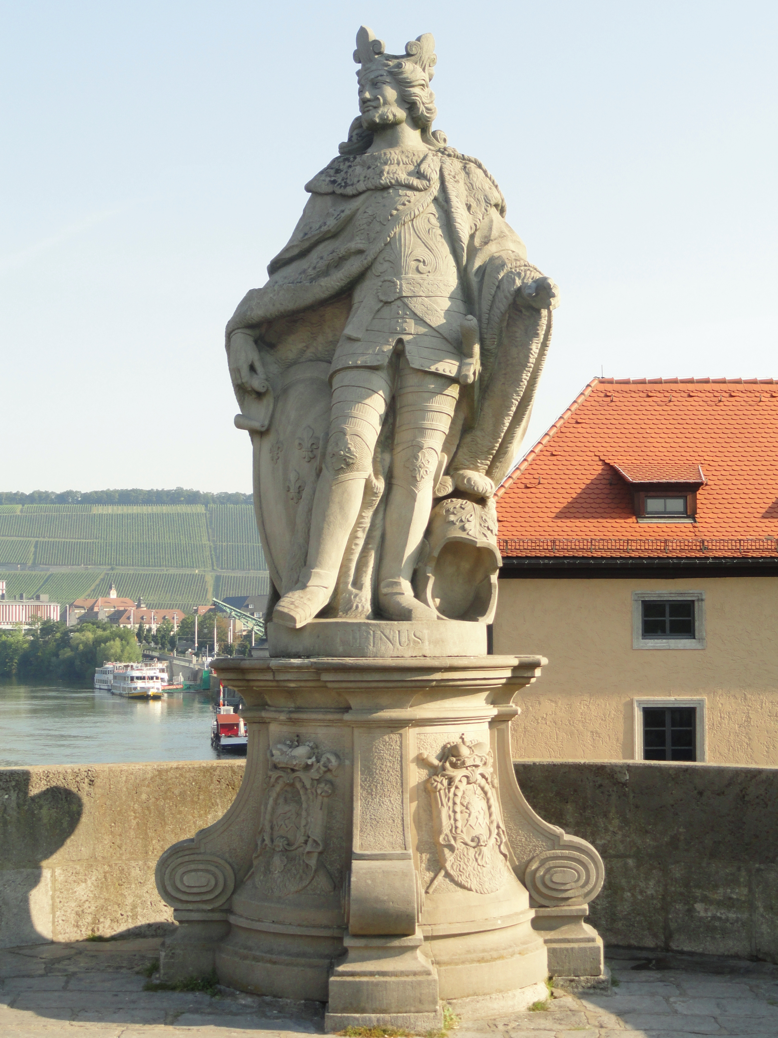 Statue on the Alte Mainbrücke in Würzburg, Germany.